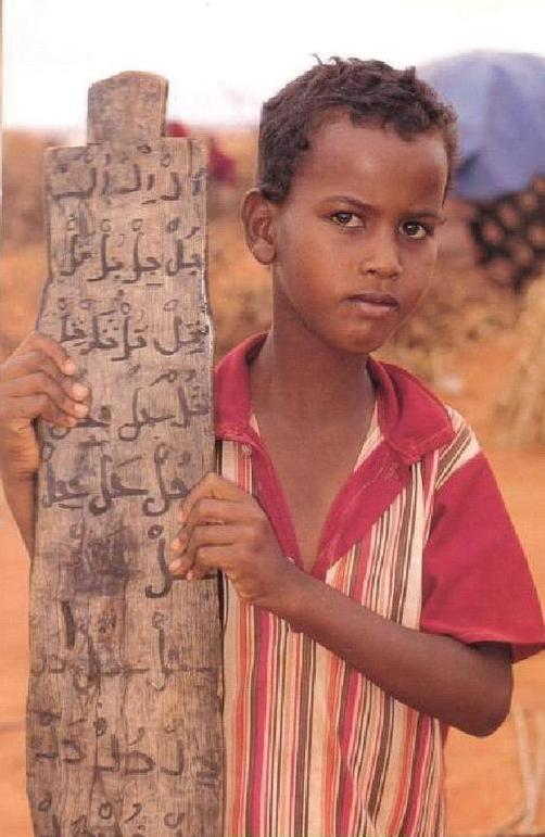 Somali boy holding up a Qur'anic prayer tablet.